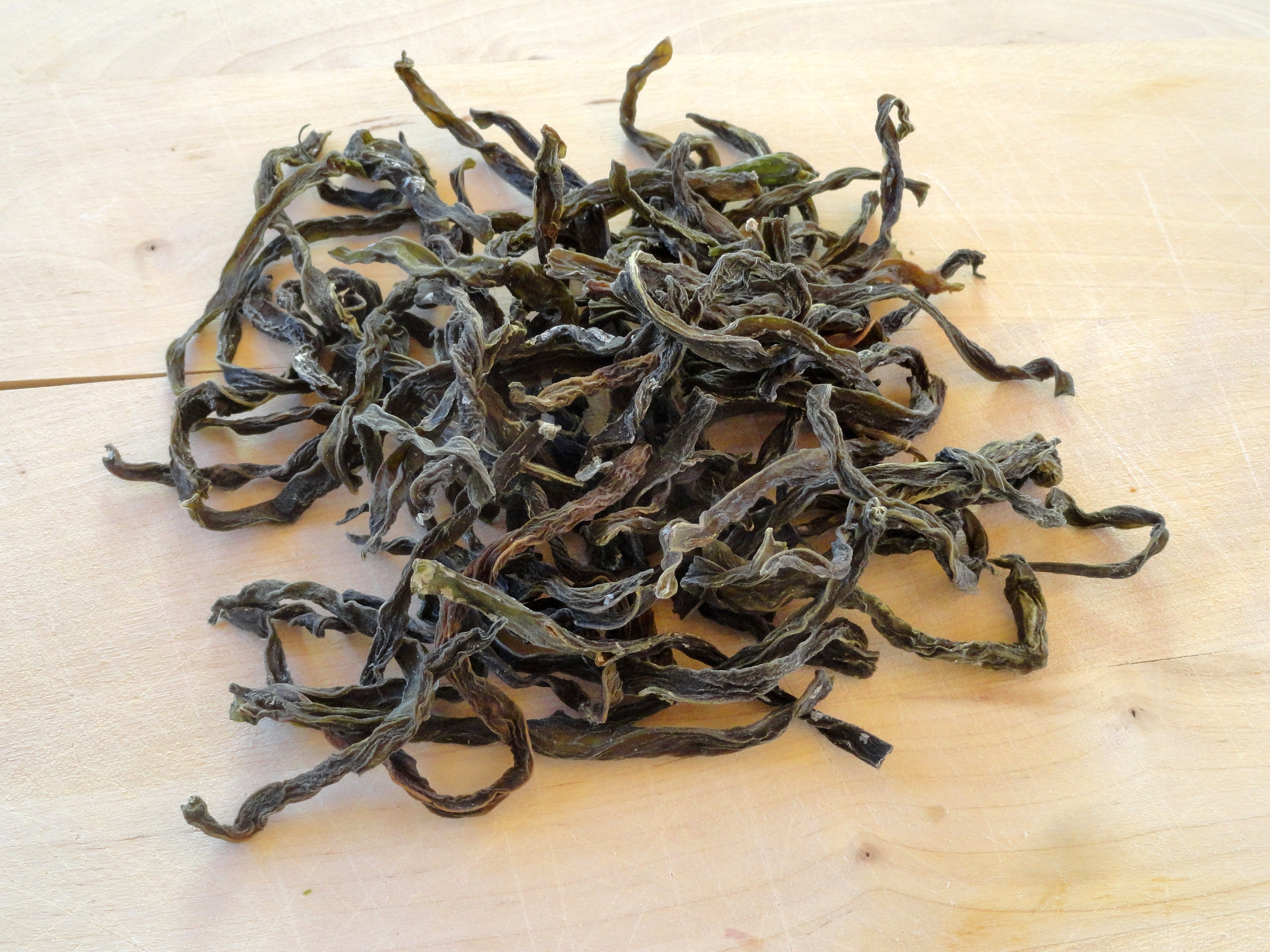 Dried beans